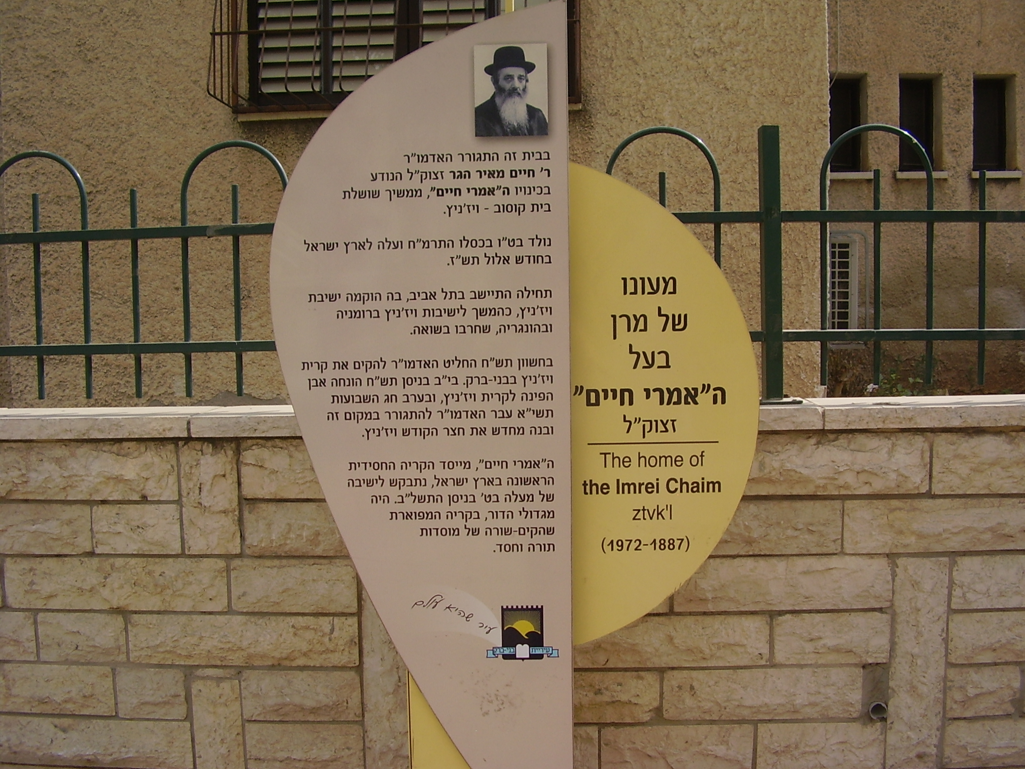 memorial plaque at vizhnitz rabbi house in bnei brak שלט זיכרון ליד בית מגוריו של הרבי מויז'ניץ בבני ברק